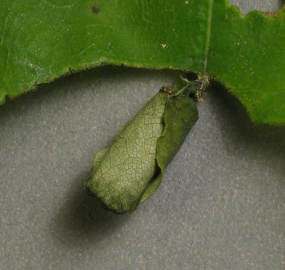 Leaf roll containing an egg of Attelabinae weevil. Size: about 1 cm. Pennypack Restoration Trust, Montgomery County, Pennsylvania, USA.